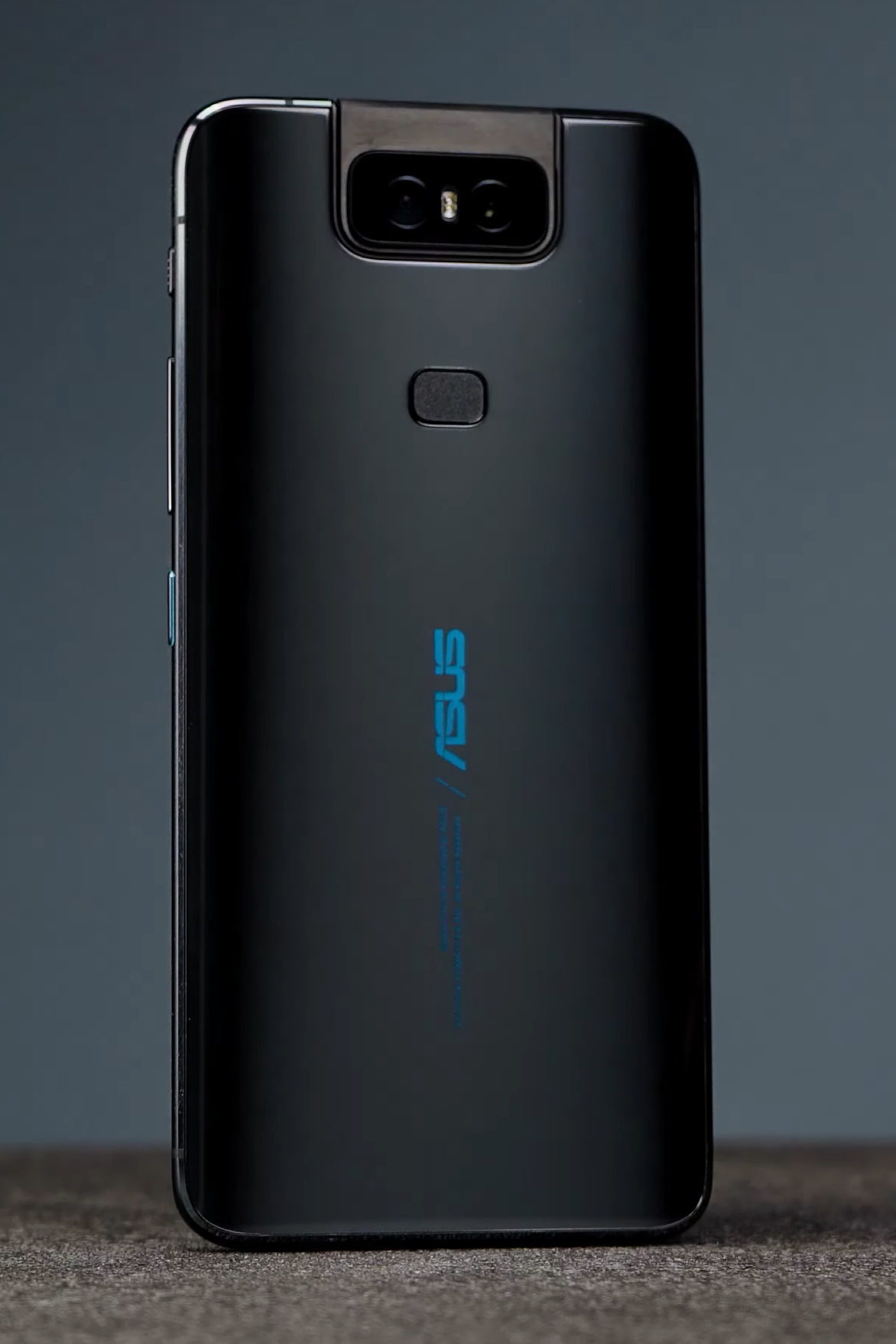 ZenFone 6